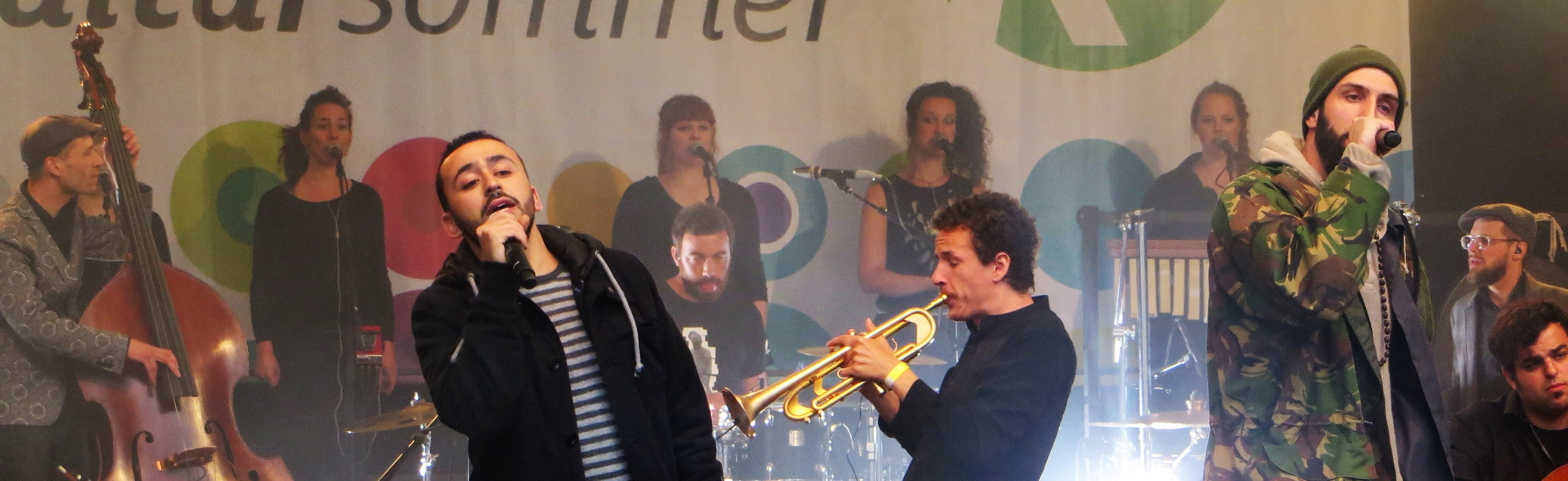 The Kyteman Orchestra live at the "Kultursommer" Festival 2013 in Oldenburg, Lower Saxony, Germany